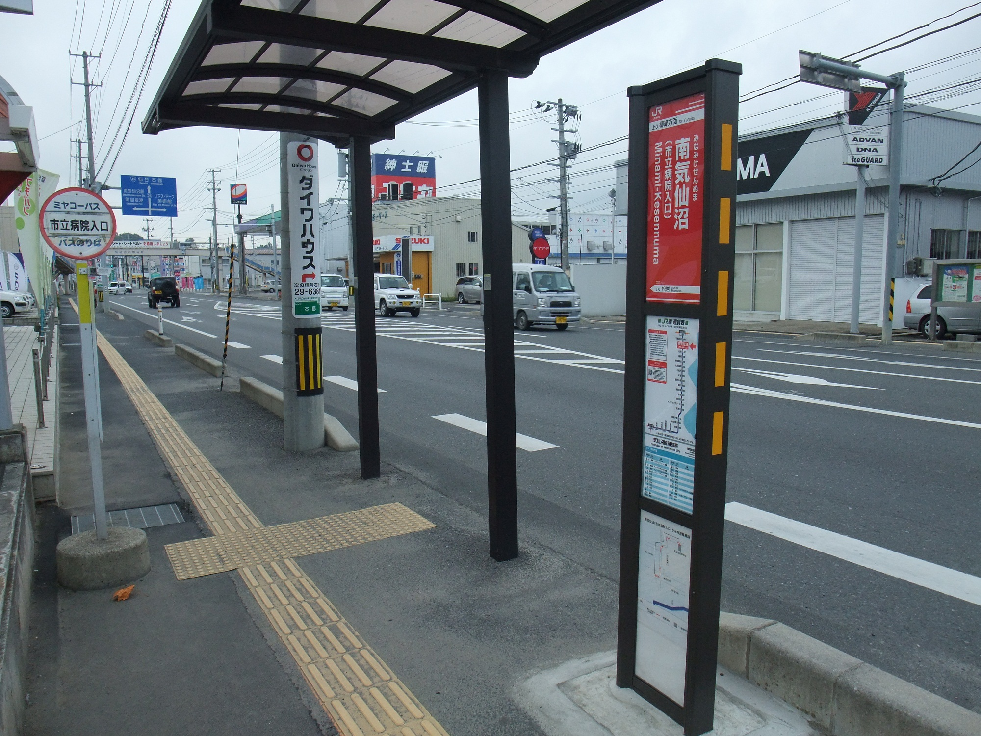 Kesennuma Line Bus rapid transit Minami-Kesennuma Station